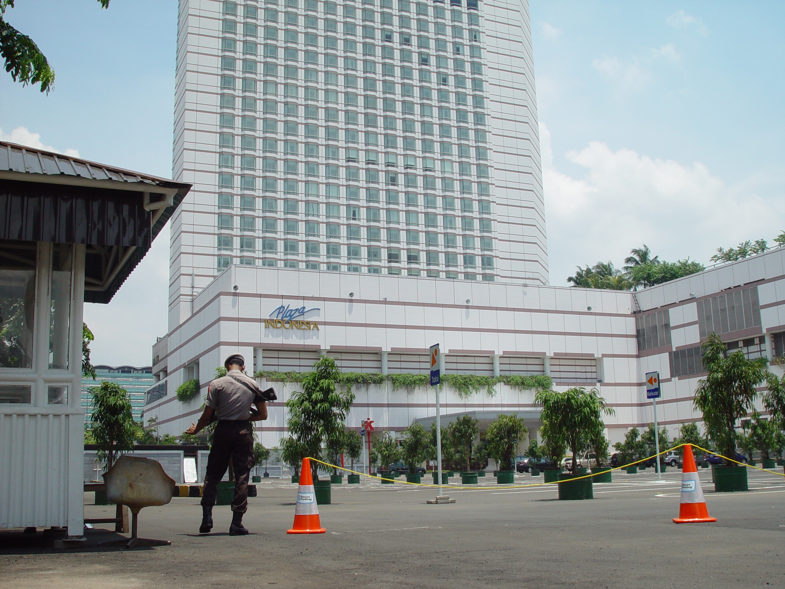 Corporate globalization and mall cultural in Jakarta, Indonesia.